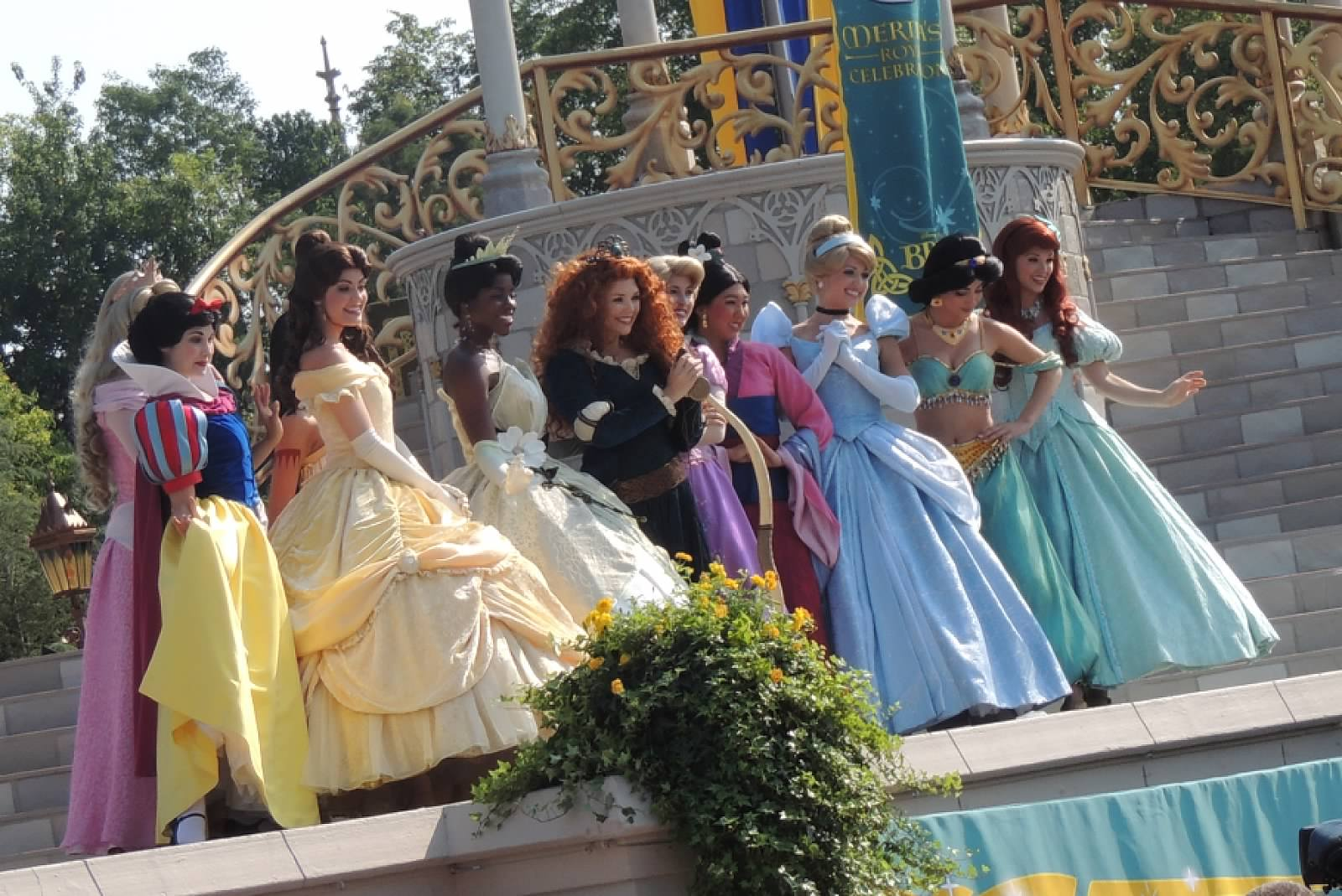 All the Disney Princesses at the coronation of Merida (from Brave) as a Disney Princess.